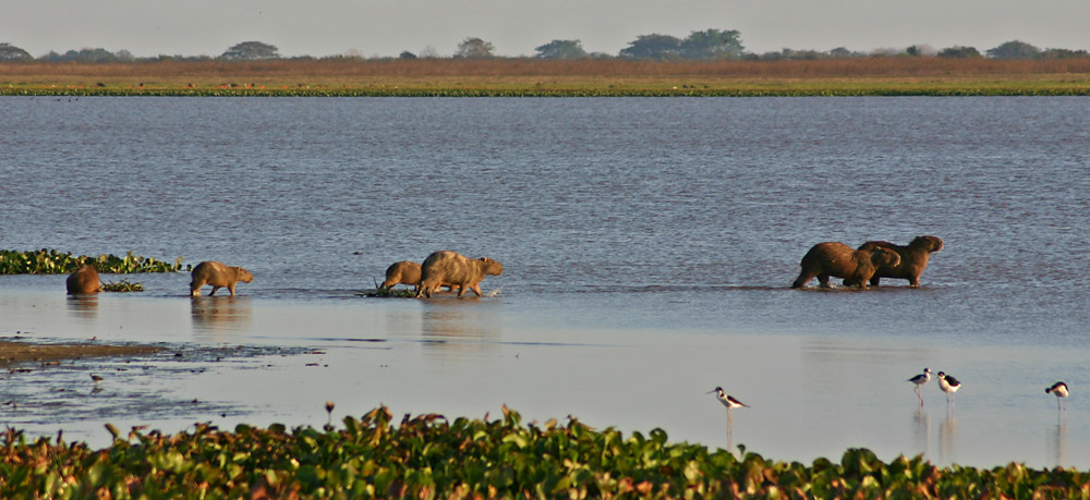 A group of capybaras crossing a lake in the Los Llanos region of Venezuela.